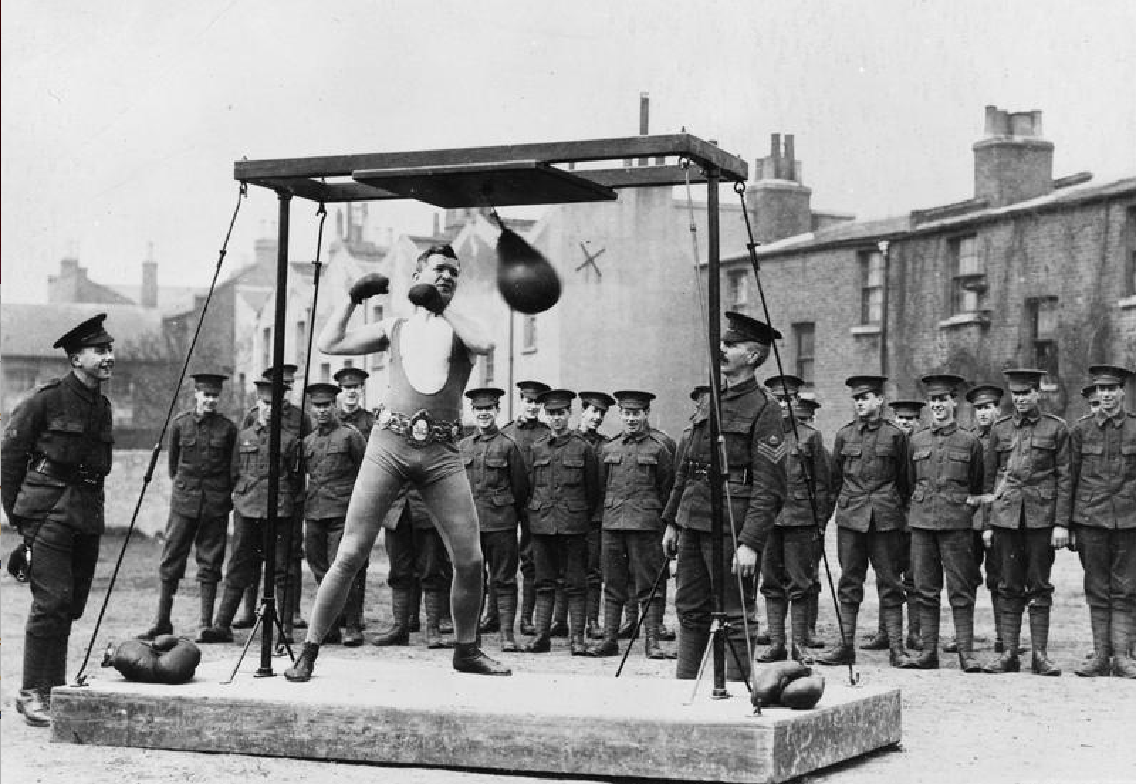 Pat O'Keeffe, British Middleweight Champion, puts on boxing exhibition for 1st Surrey Rifles